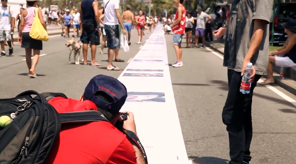 A Brazilian Madonna event headed by Runner in 2012.